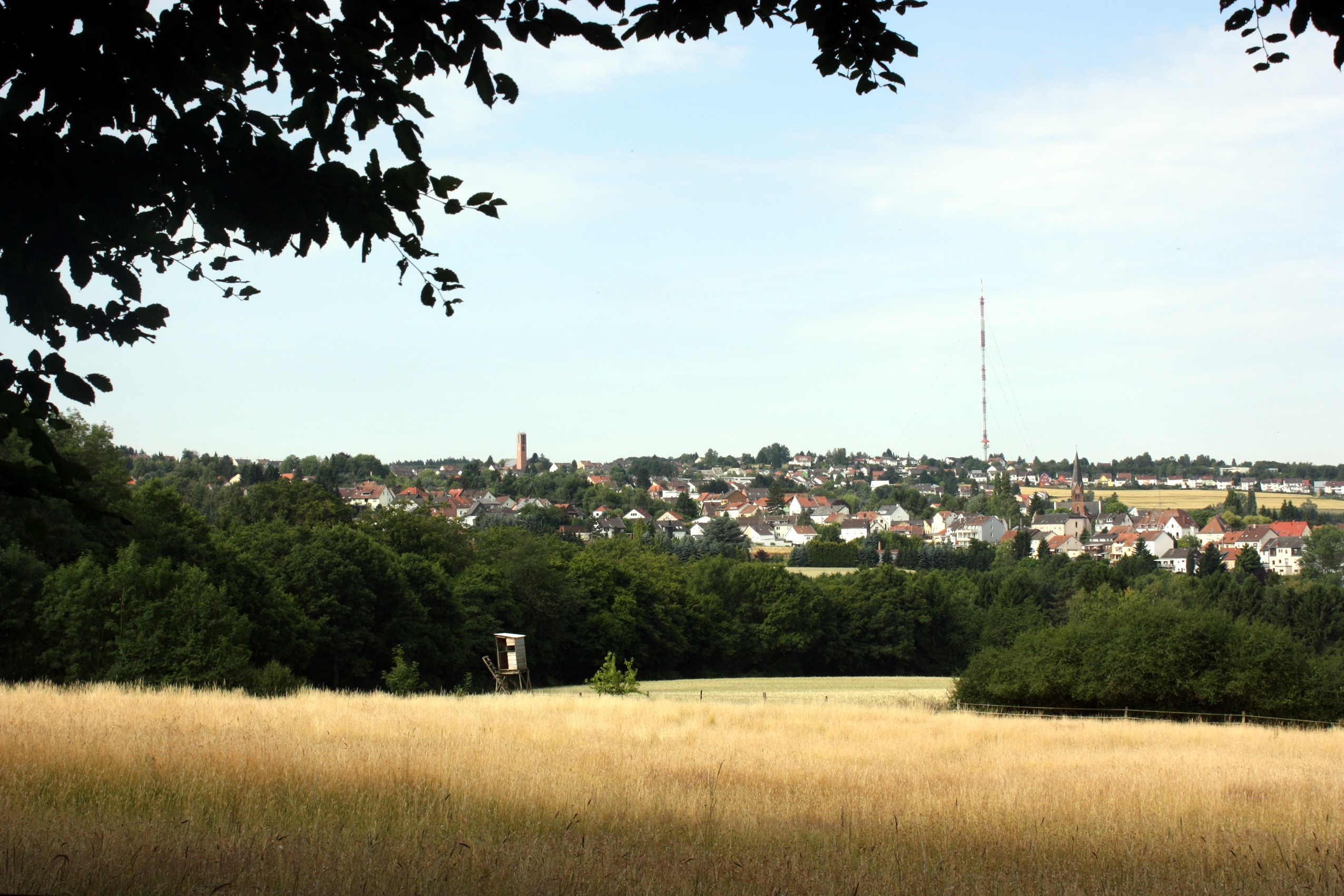 Riegelsberg, view from the panorama point